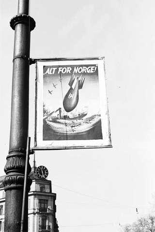 Nazi propaganda poster in Oslo, occupied Norway. Poster designed by illustrator Harald Damsleth